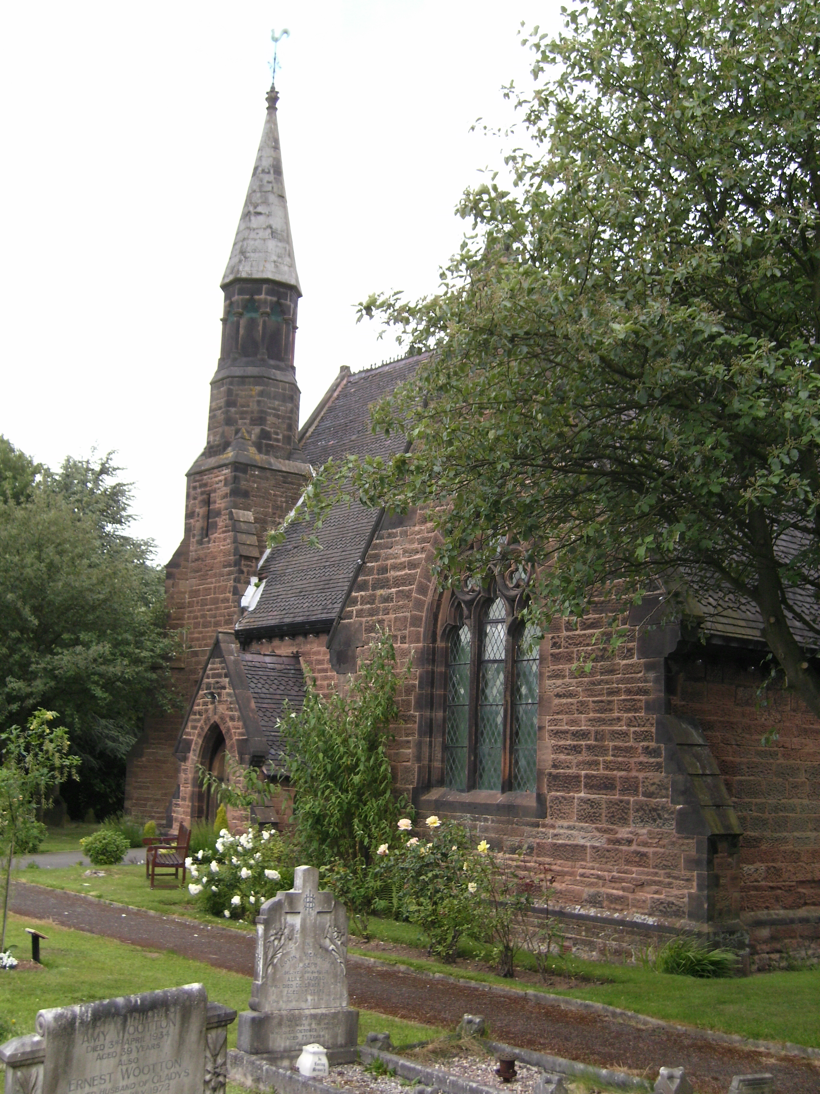 St Paul's church, Coven, Staffordshire, consecrated 1857, designed by Edward Banks.